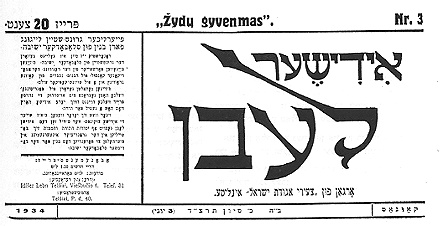 DosYiddisheLebben